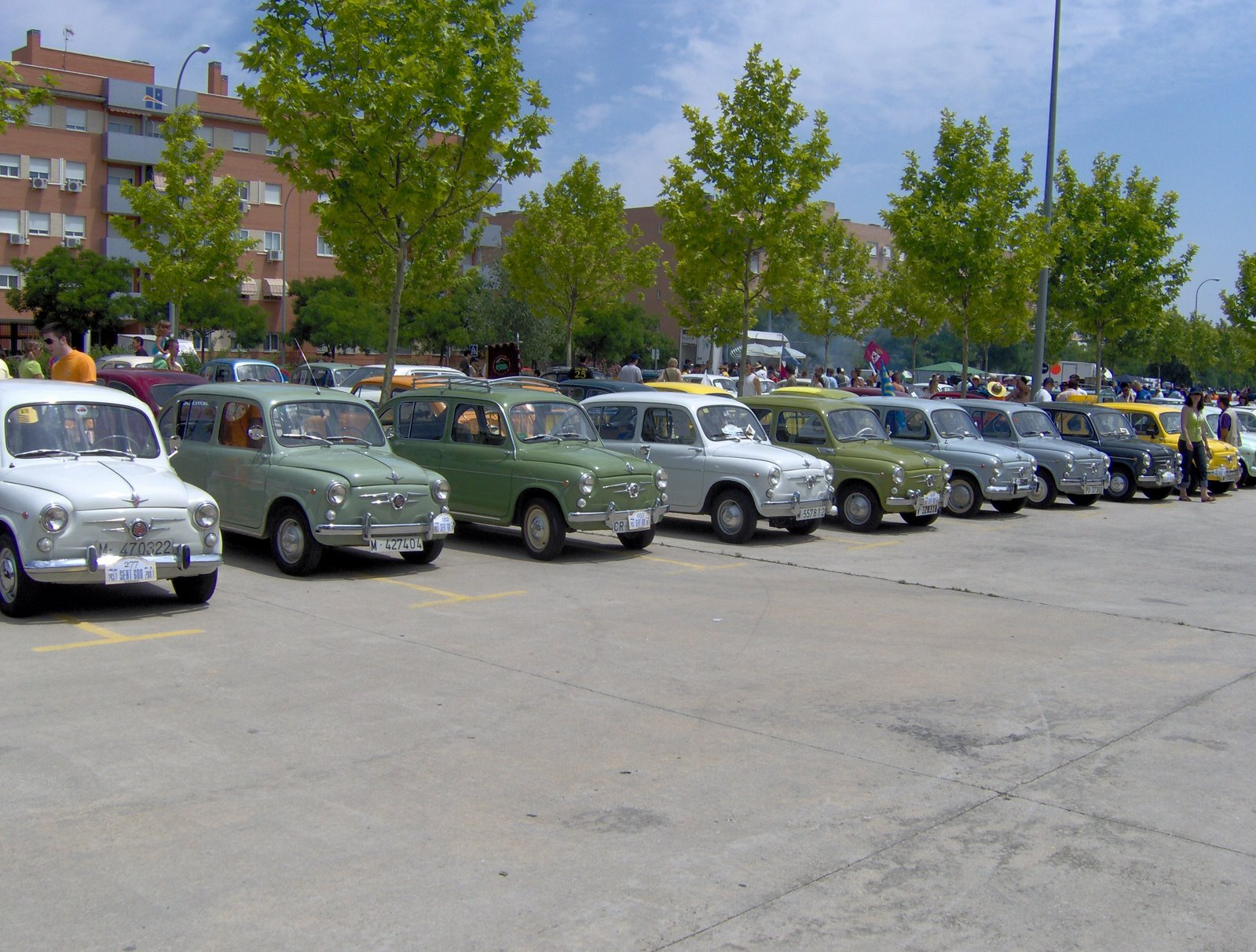 Seat 800 in Leganés, Madrid